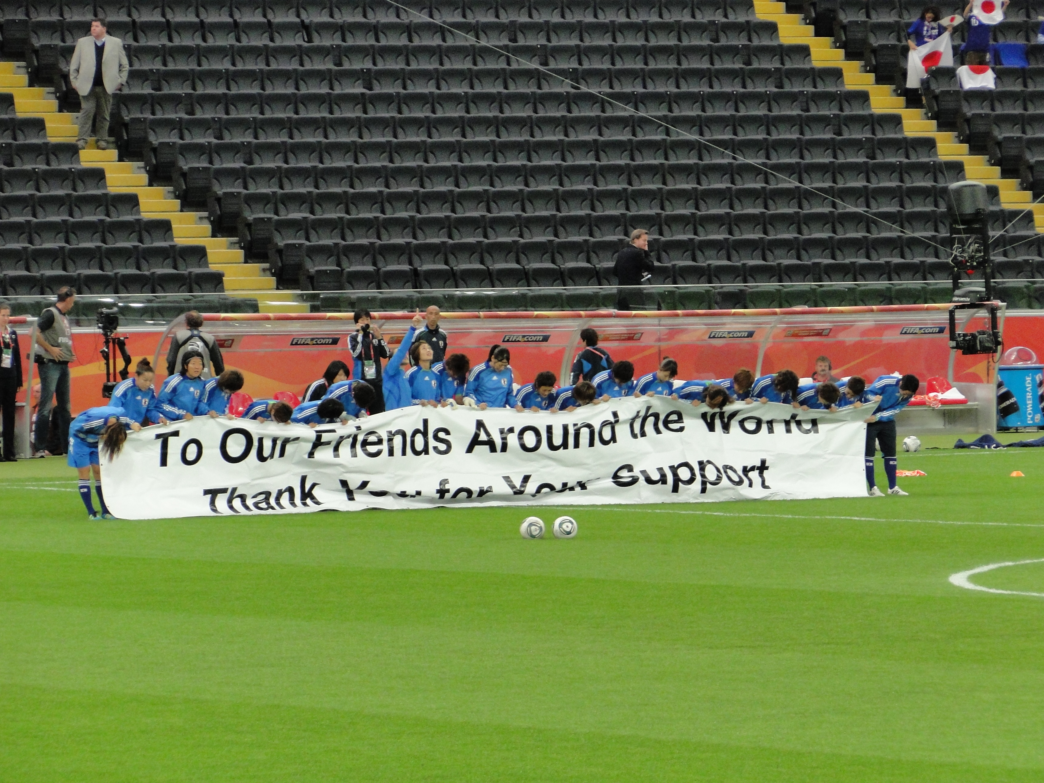 Japan team thank you for your support.